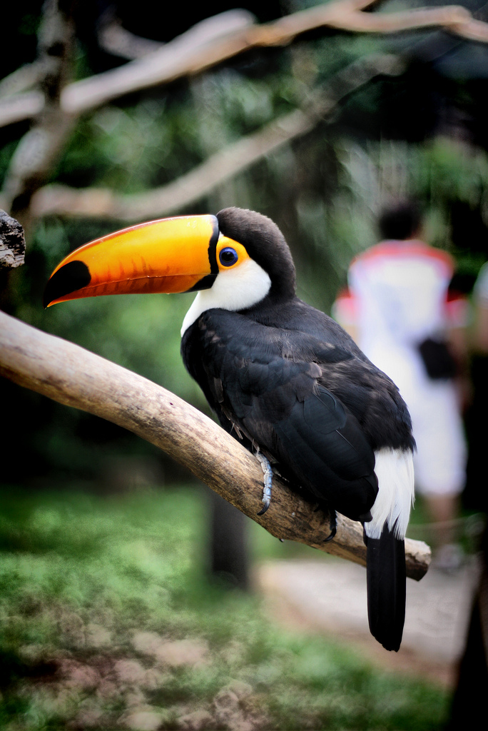 Toco Toucan in captivity perching on a branch.